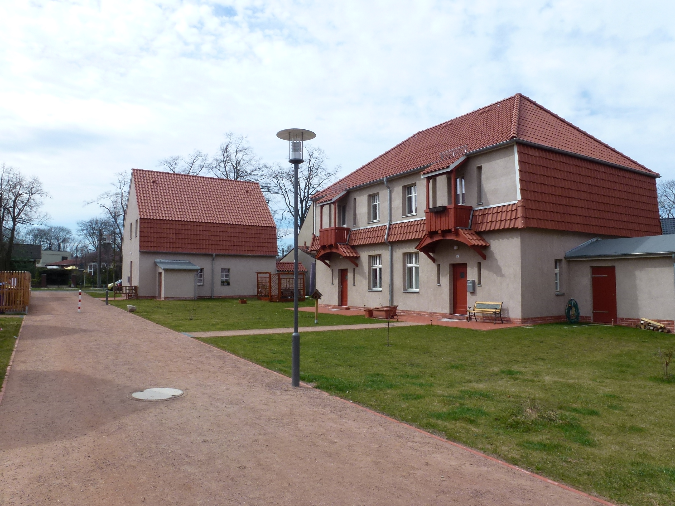 Berlin-Altglienicke Preußensiedlung